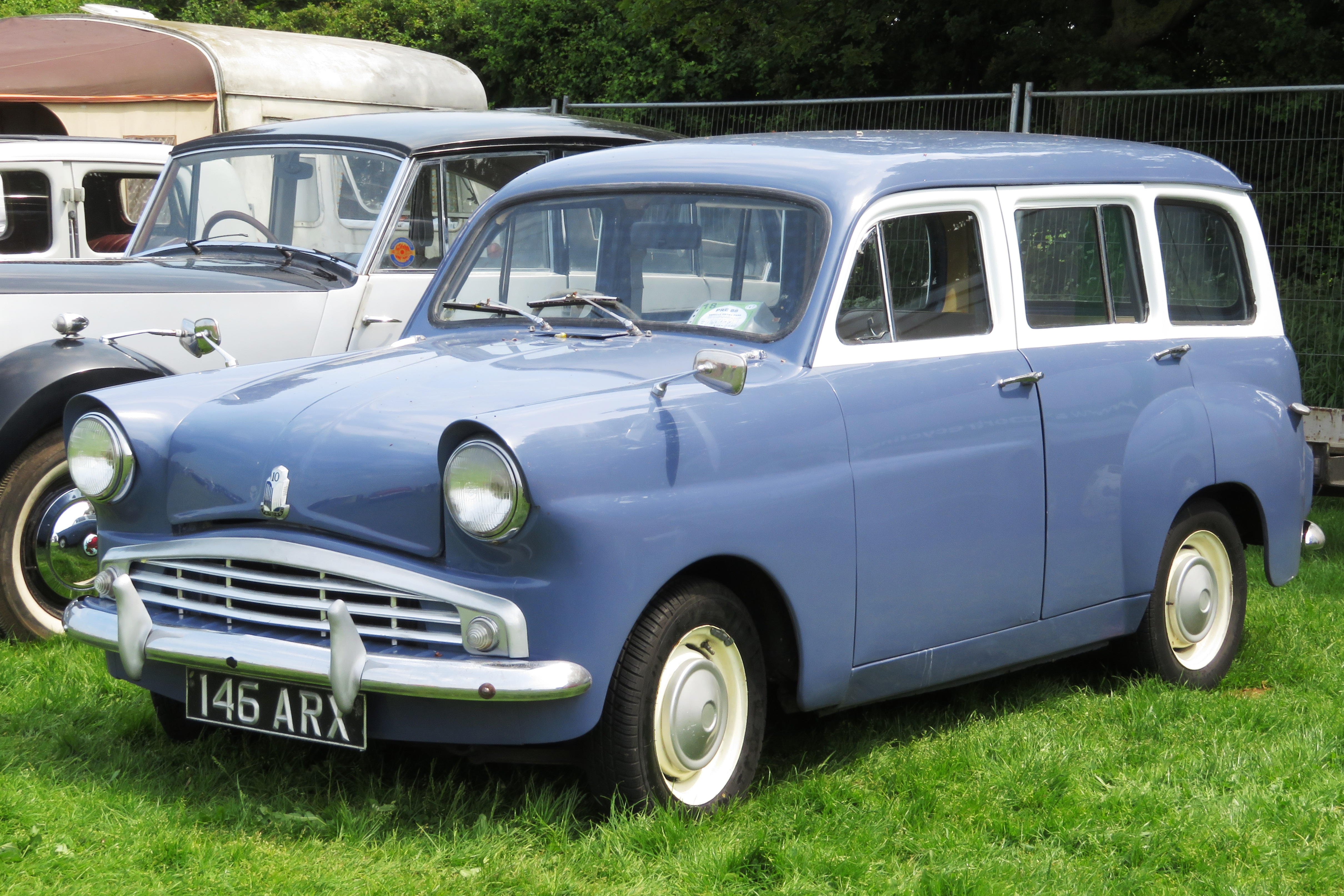 Standard Companion (1962)